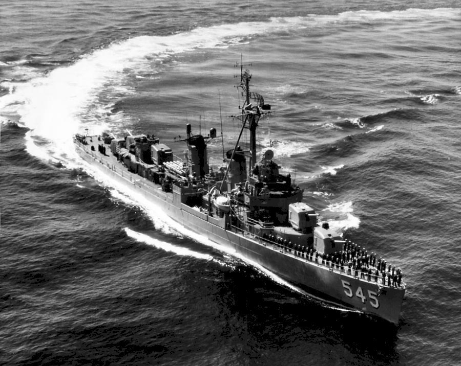 The U.S. Navy destroyer USS Bradford (DD-545) at sea, with the crew manning the rail forward, circa 1961.